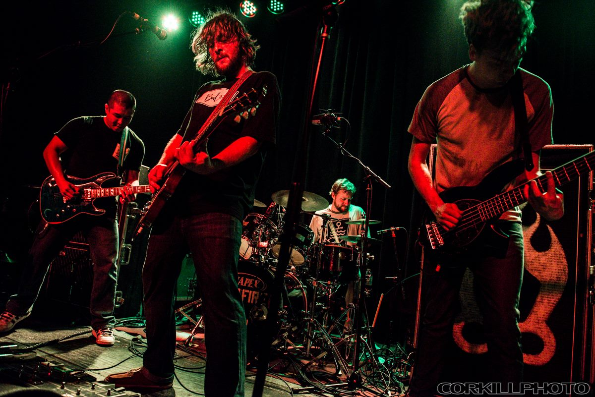 Picture taken by Matt Corkill at The Constellation Room in Santa Ana, CA on 01.28.14